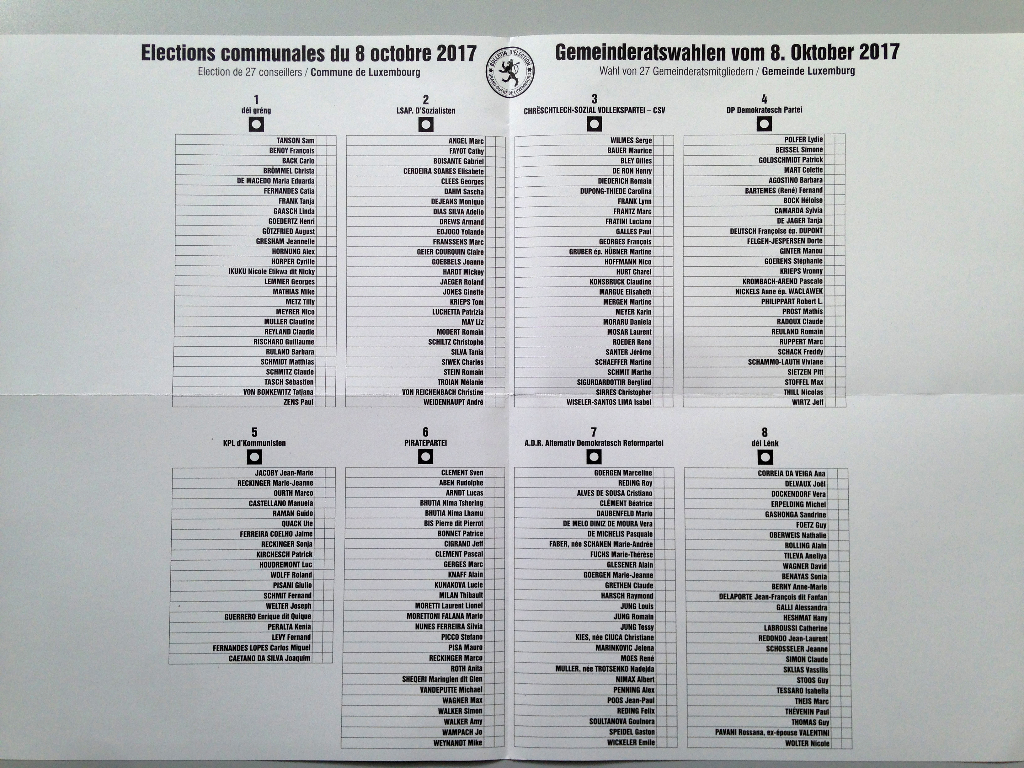 Ballot paper for the municipal elections on the 8th of Octobre 2017 in the city of Luxembourg.